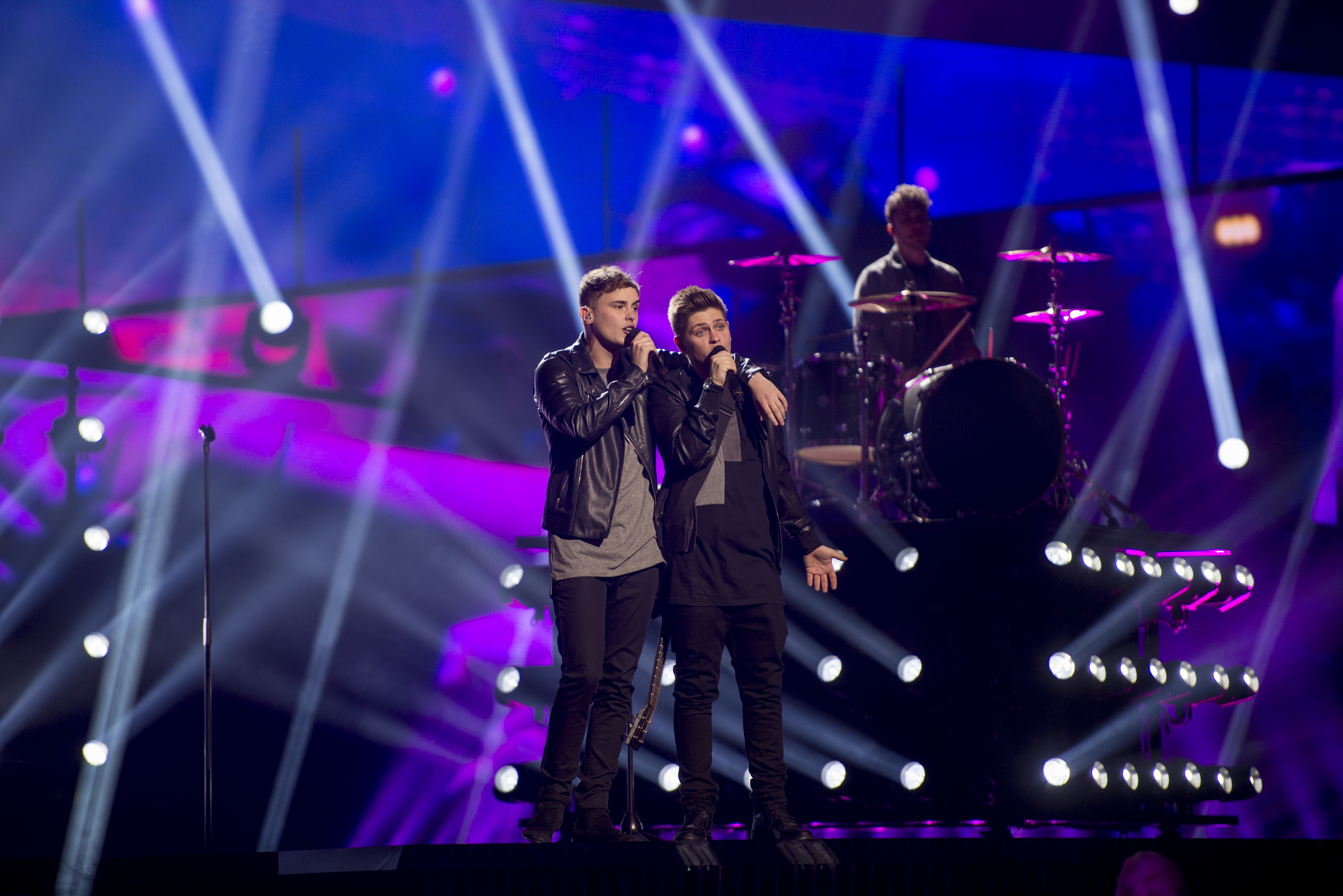 Joe & Jake representing United Kingdom with the song "You're Not Alone" during a rehearsal for "the Big Five" in the Eurovision Song Contest 2016 in Stockholm. (Help translate this text)